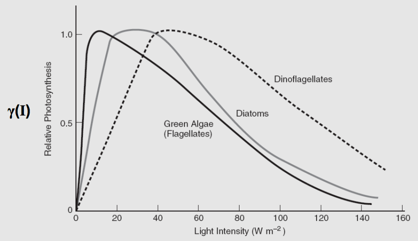 Own work